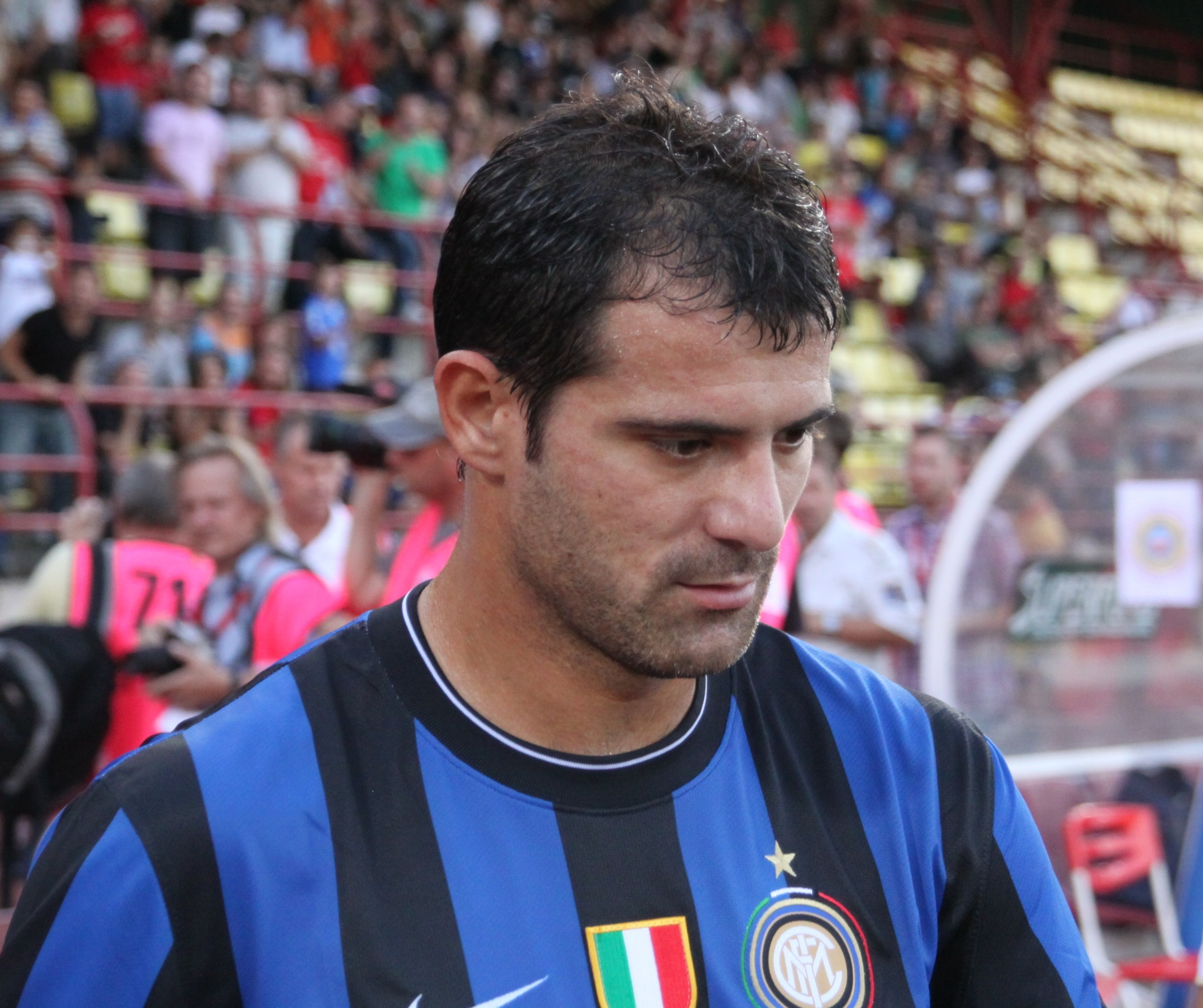 Dejan Stanković - F.C. Internazionale Milano